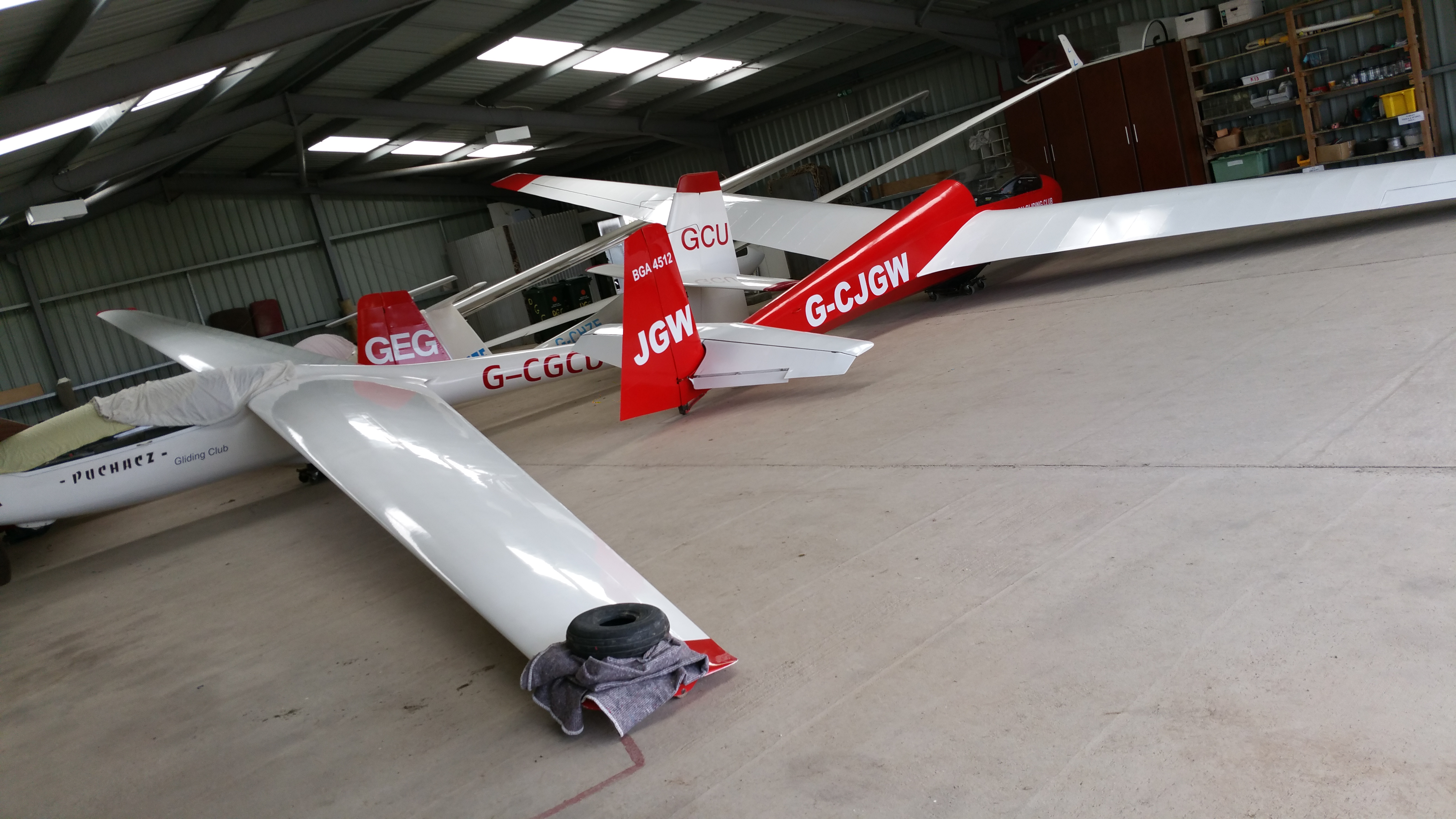 This is Darlton Gliding Club's fleet in the hangar.